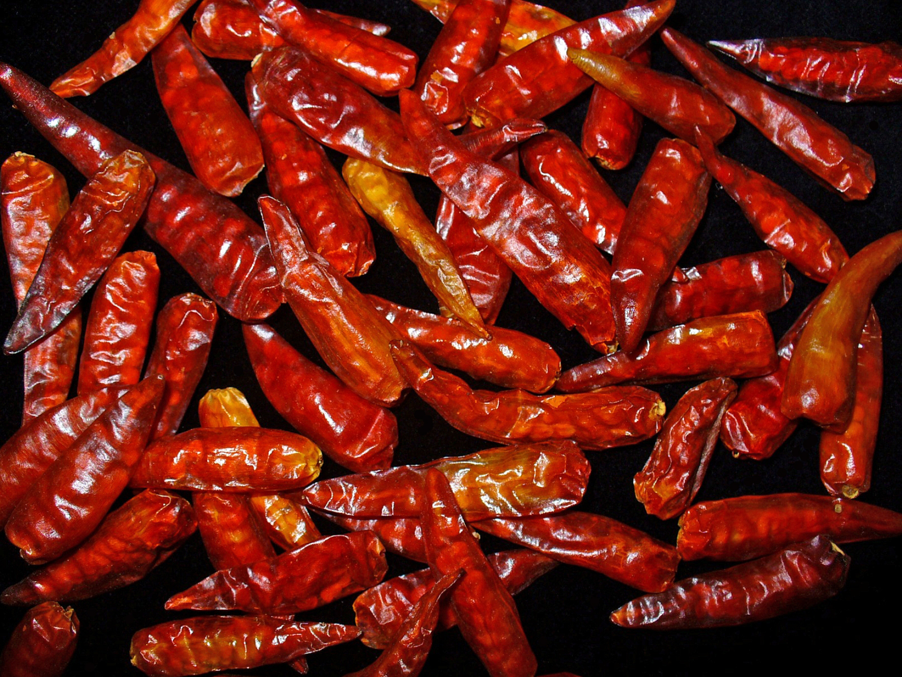 Capsicum frutescens ’Hidalgo’, Solanaceae, Cone Pepper, Tabasco, dried fruits.